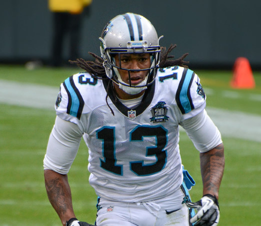 Carolina Panthers wide receiver, Kelvin Benjamin, playing against the Green Bay Packers on October 19, 2014.